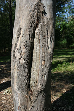 Photo showing an Aboriginal scarred tree. Author: Jens-Uwe Korff